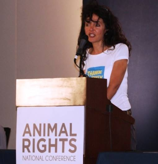 Karen Dawn at the 2014 Animal Rights Conference in Los Angeles - Photo by Véronique Perrot H.C.